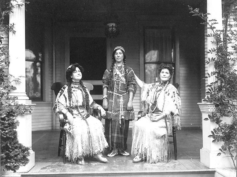 On verso of photograph: Mrs. Thomas Burke (left) and her mother (?), Mrs. John J. McGilvra (?) (right)PH Coll 727.822 Subjects (LCSH): Burke, Caroline; McGilvra, John J., Mrs.; Women--Washington (State)--Seattle; Ethnic costume--Washington (State)--Seattle Caroline Burke was the wife of Thomas Burke after whom the Burke Museum of Natural History and Culture is named. John J. McGilvra, whose wife Elizabeth is at right, was (like Thomas Burke) a prominent Seattle lawyer and businessman important in bringing railroads to Seattle.